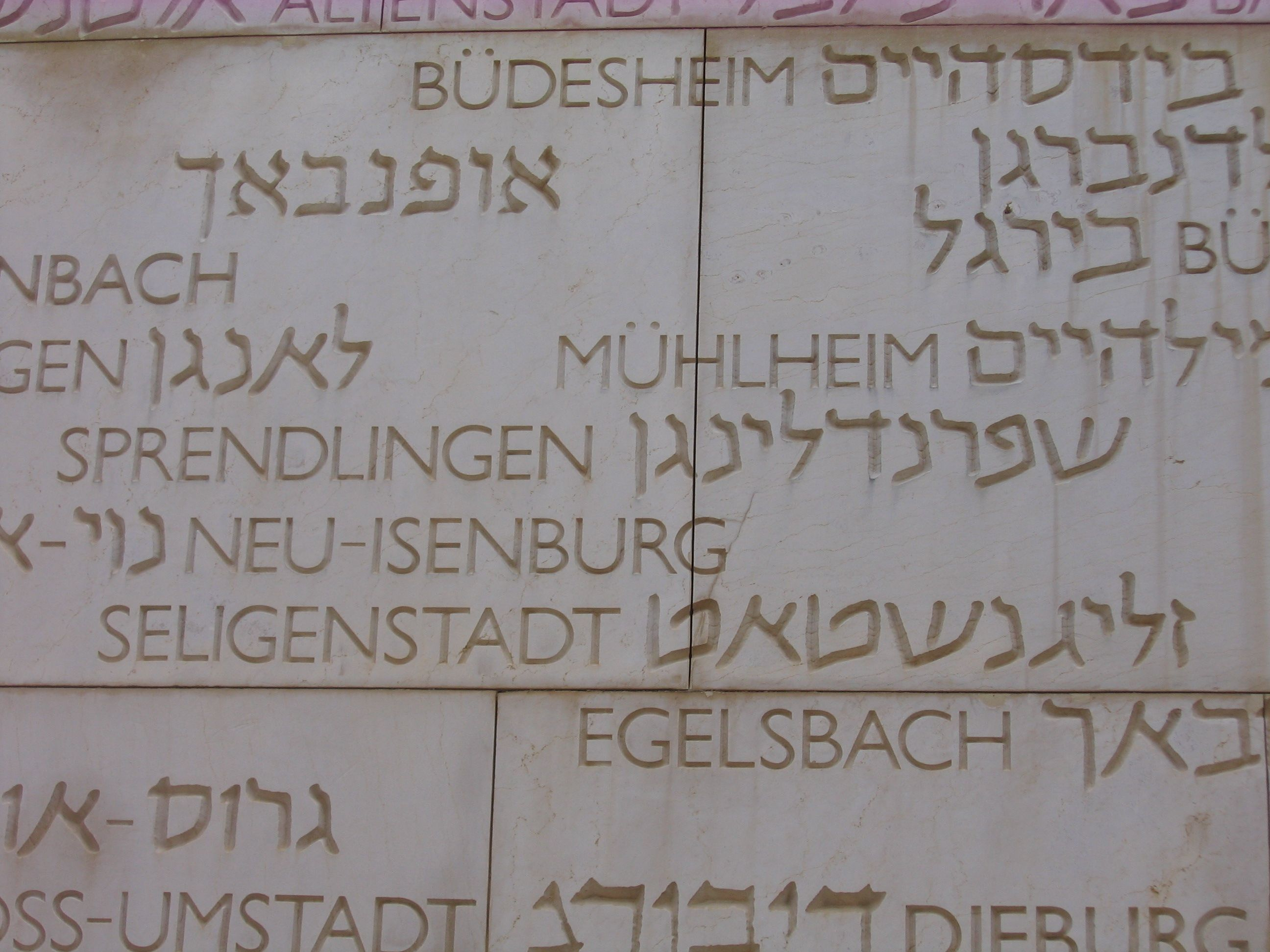 Valley of the Communities, Yad Vashem: Inscription for the community of Sprendlingen